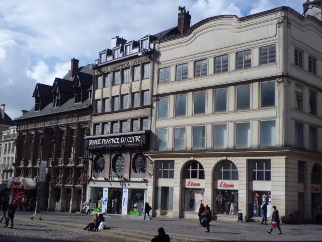 Houses in front of the Rouen Cathedrale, Normandy